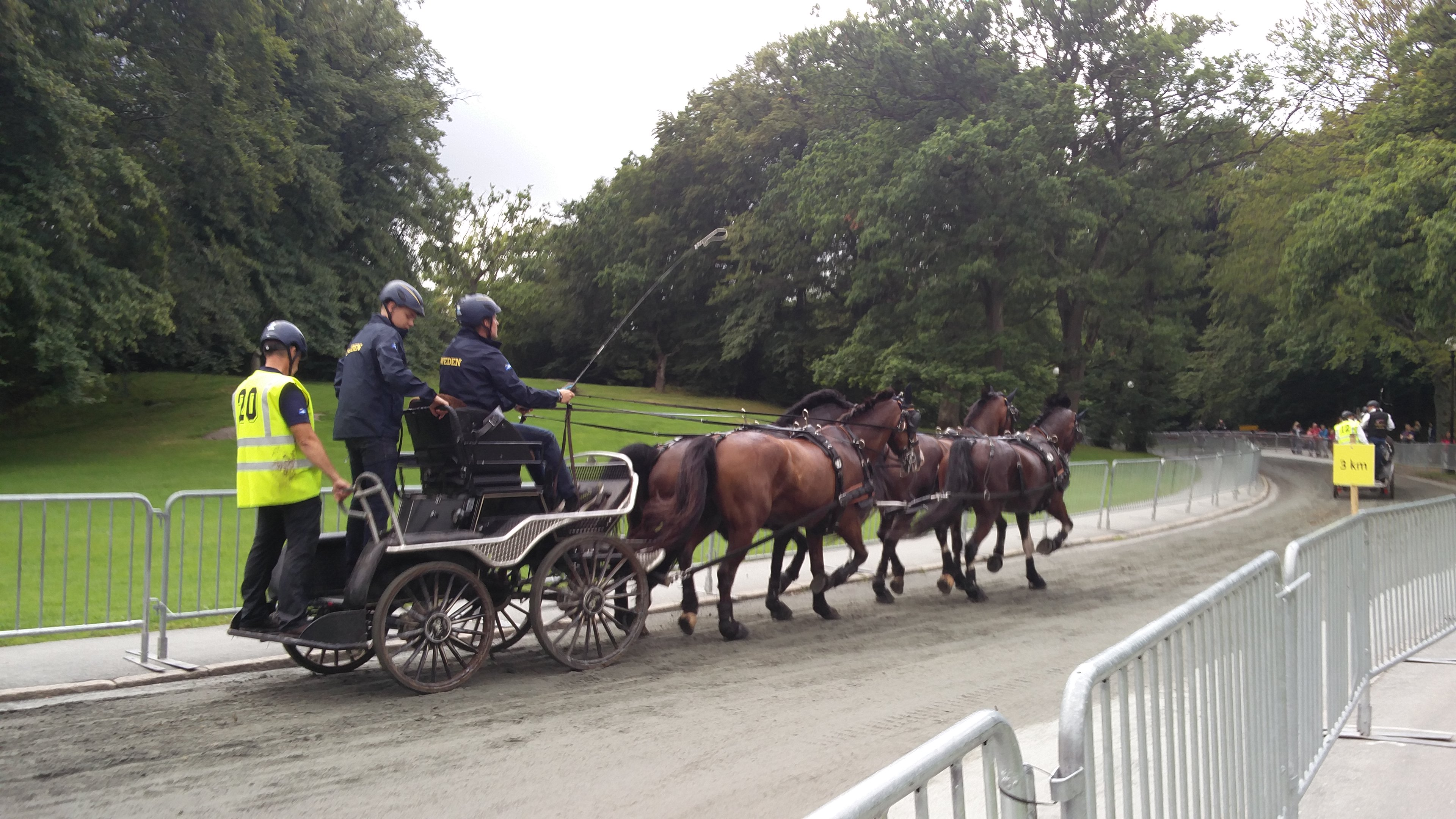 Swedish team at european dressage championship 2017 at Gothenburg, Sweden